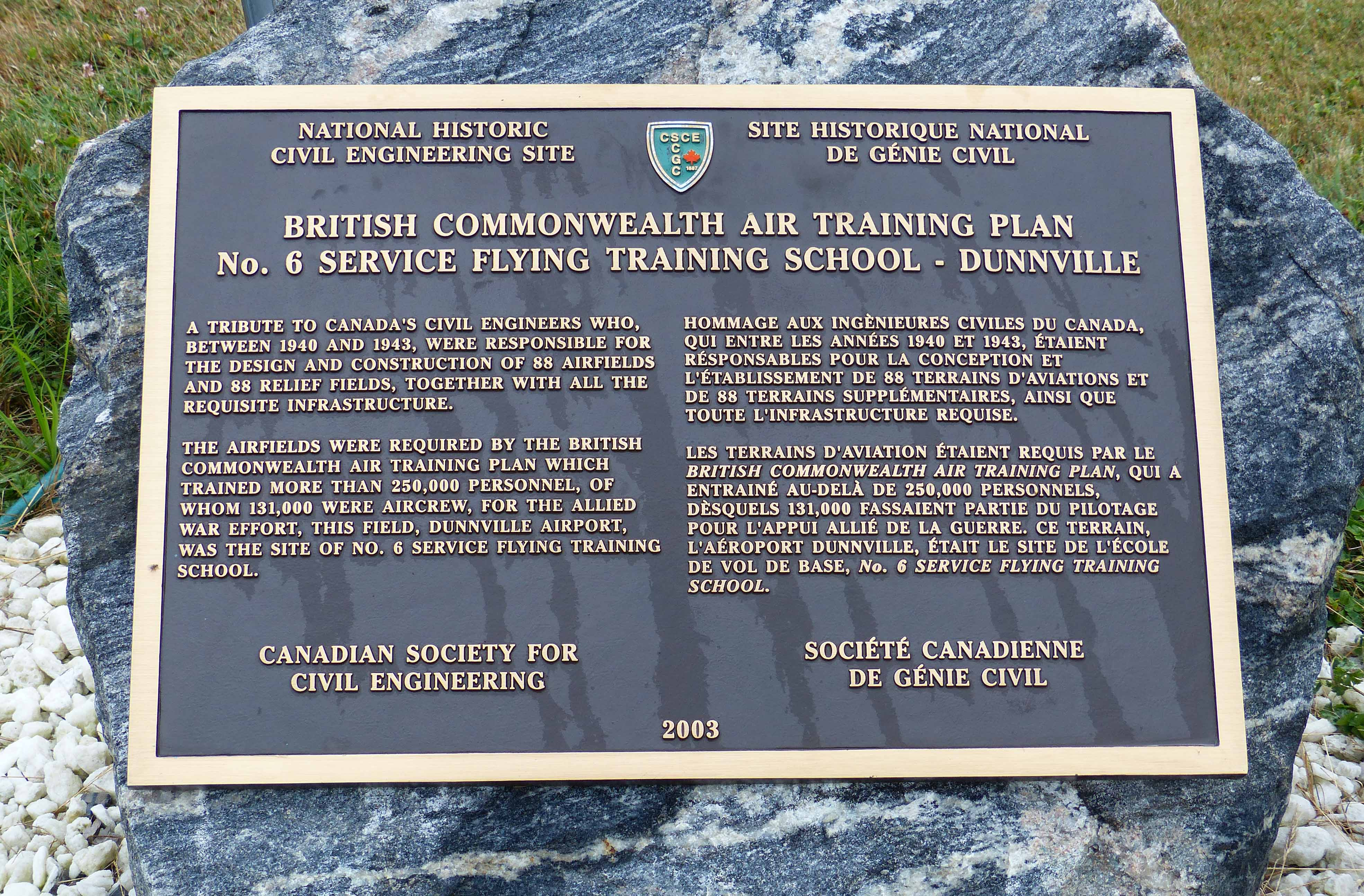 This plaque describes the designation of Dunnville Airport as a National Historic Civil Engineering Site in 2003.